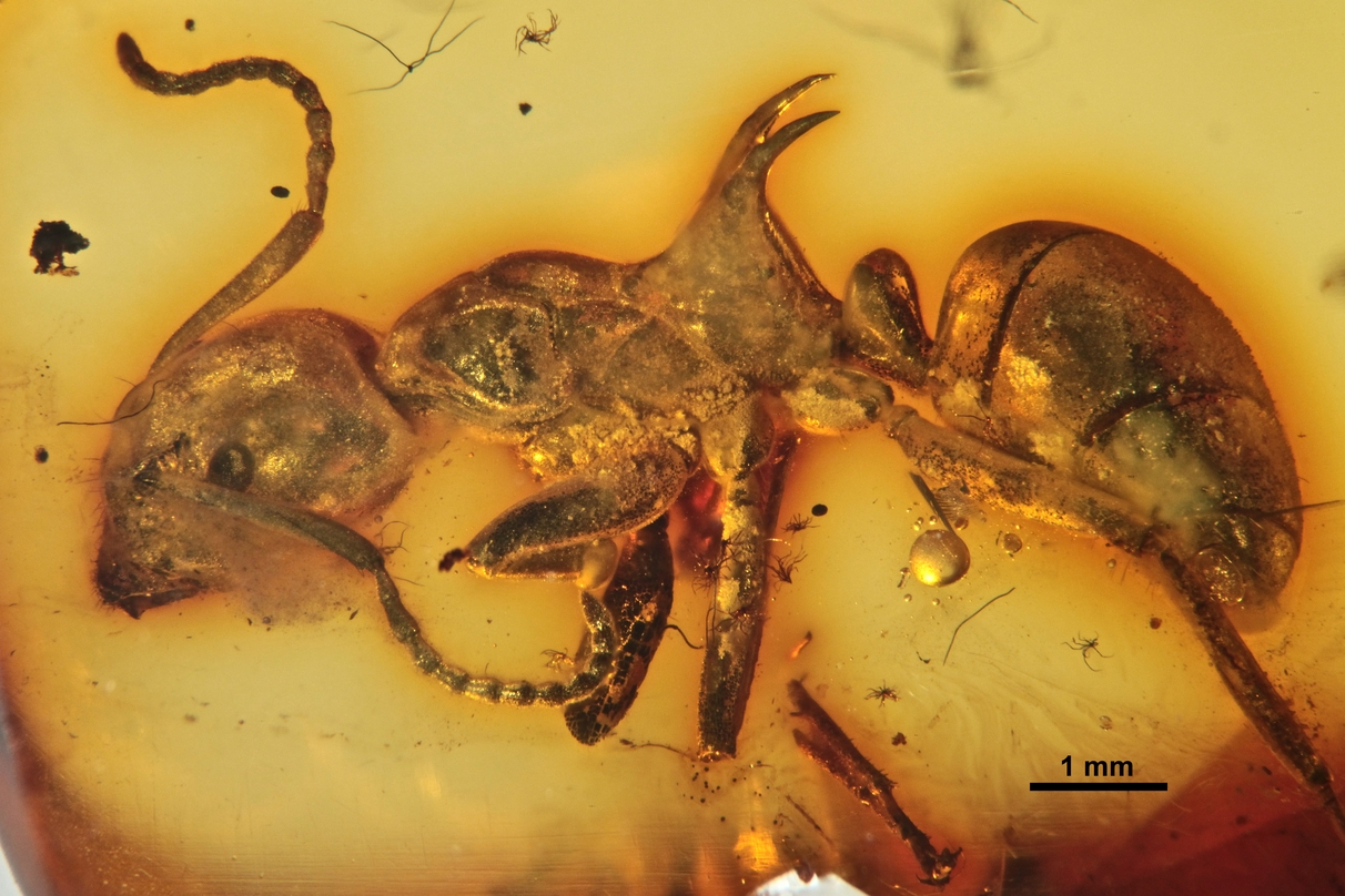 Profile view of a Dolichoderus cornutus worker. Middle Eocene; Baltic amber, Samland Peninsula, Kalingrad, Russia Private Collection. Idstein, Darmstadt, Hesse, Germany. Specimen JV-A2